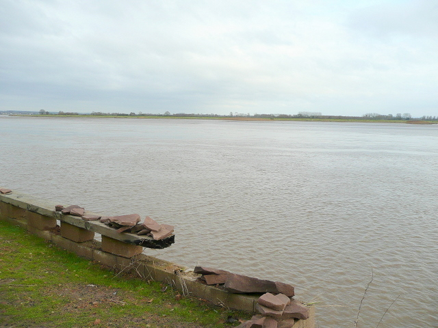 View to the Arlingham side, Data from Geograph: Description: Looking across the Severn estuary from Bullo Pill. ICBM: 51.790600617718, -2.445059296675 Location: (about 1 km from) near to Newnham, Gloucestershire, Great Britain.